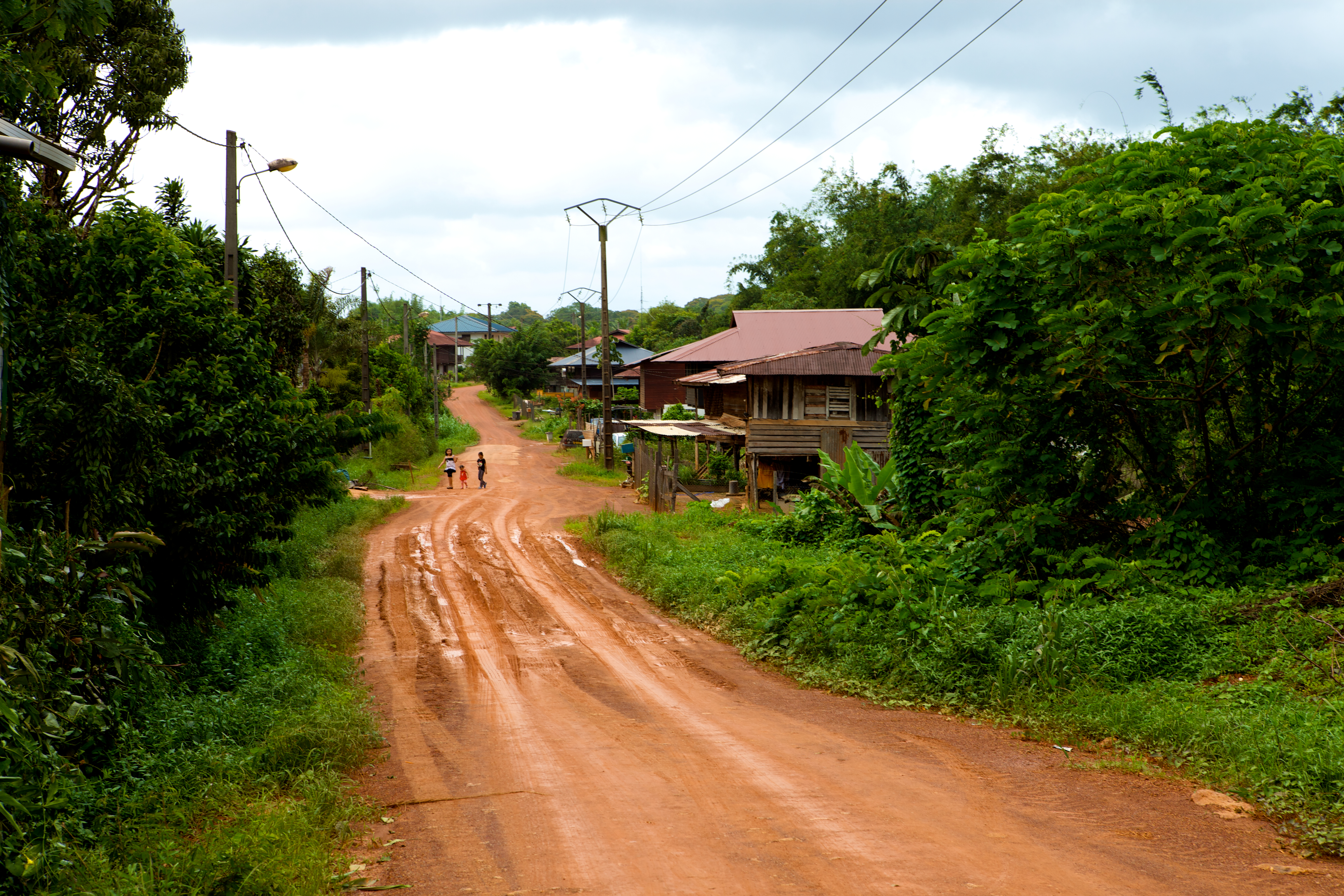 Cacao village